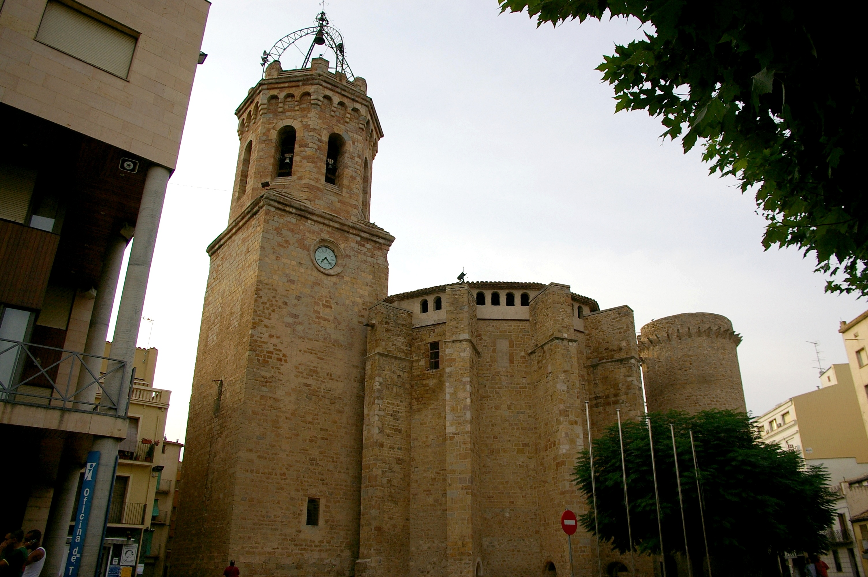 Front view of the digital SLR camera Pentax *ist DS